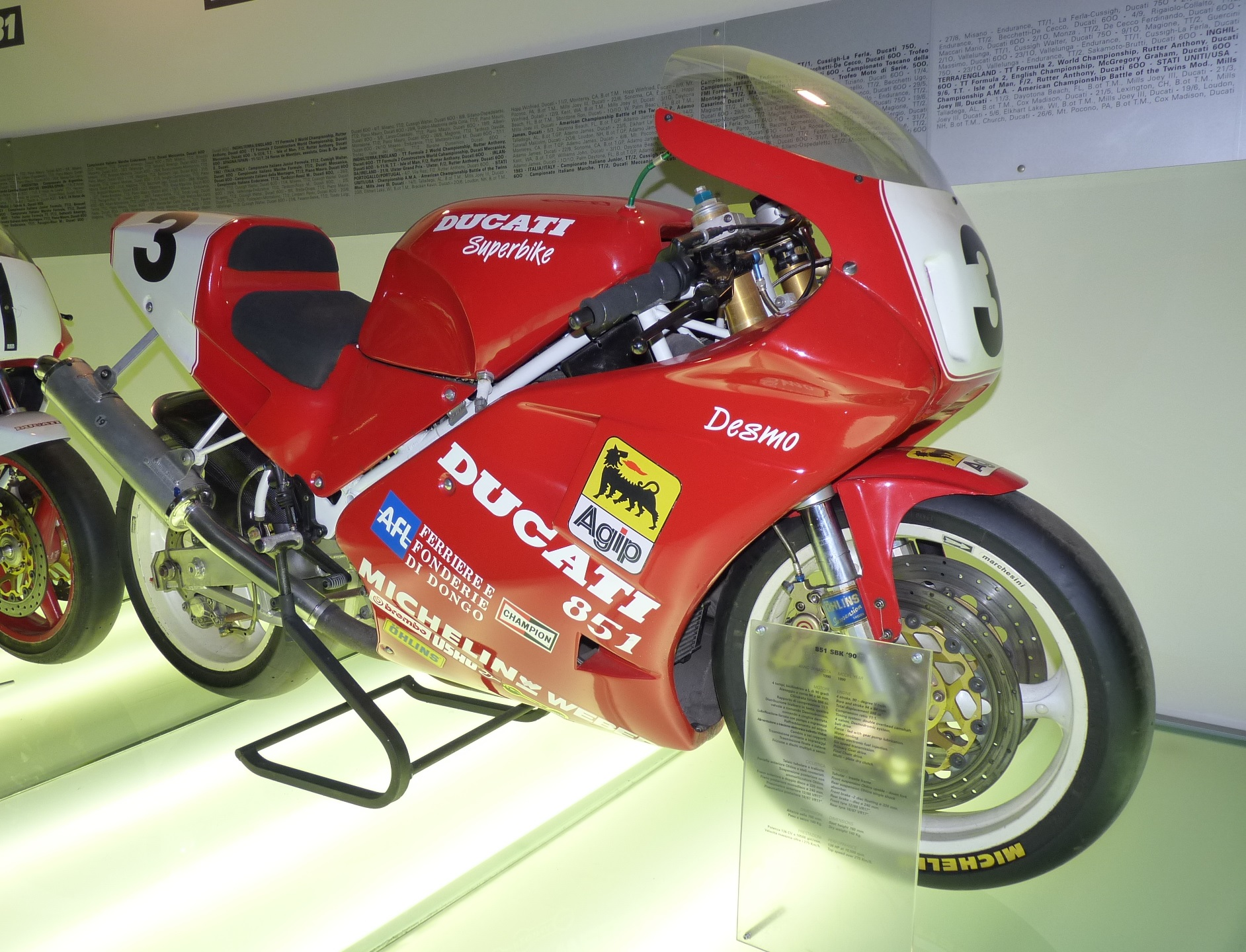 Ducati 851 SBK '90. With this bike, French pilot Raymond Roche won the 1990 Superbike World driver's Championship. Bologna, Museo Ducati.